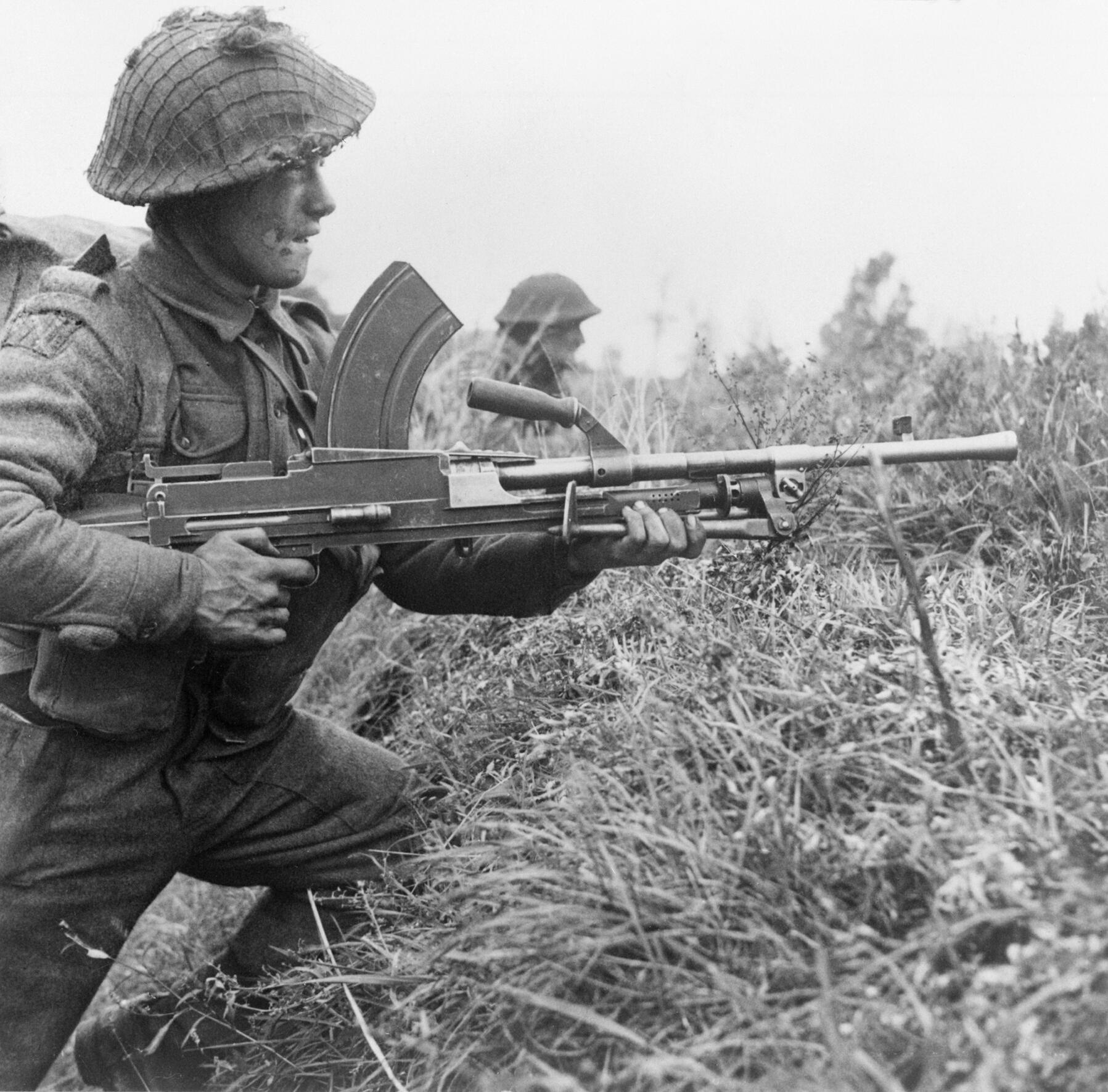 A Bren gunner of the 8th Royal Scots at Moostdijk, Holland, 6 November 1944. A Bren gunner of the 8th Royal Scots at Moostdijk, 6 November 1944.